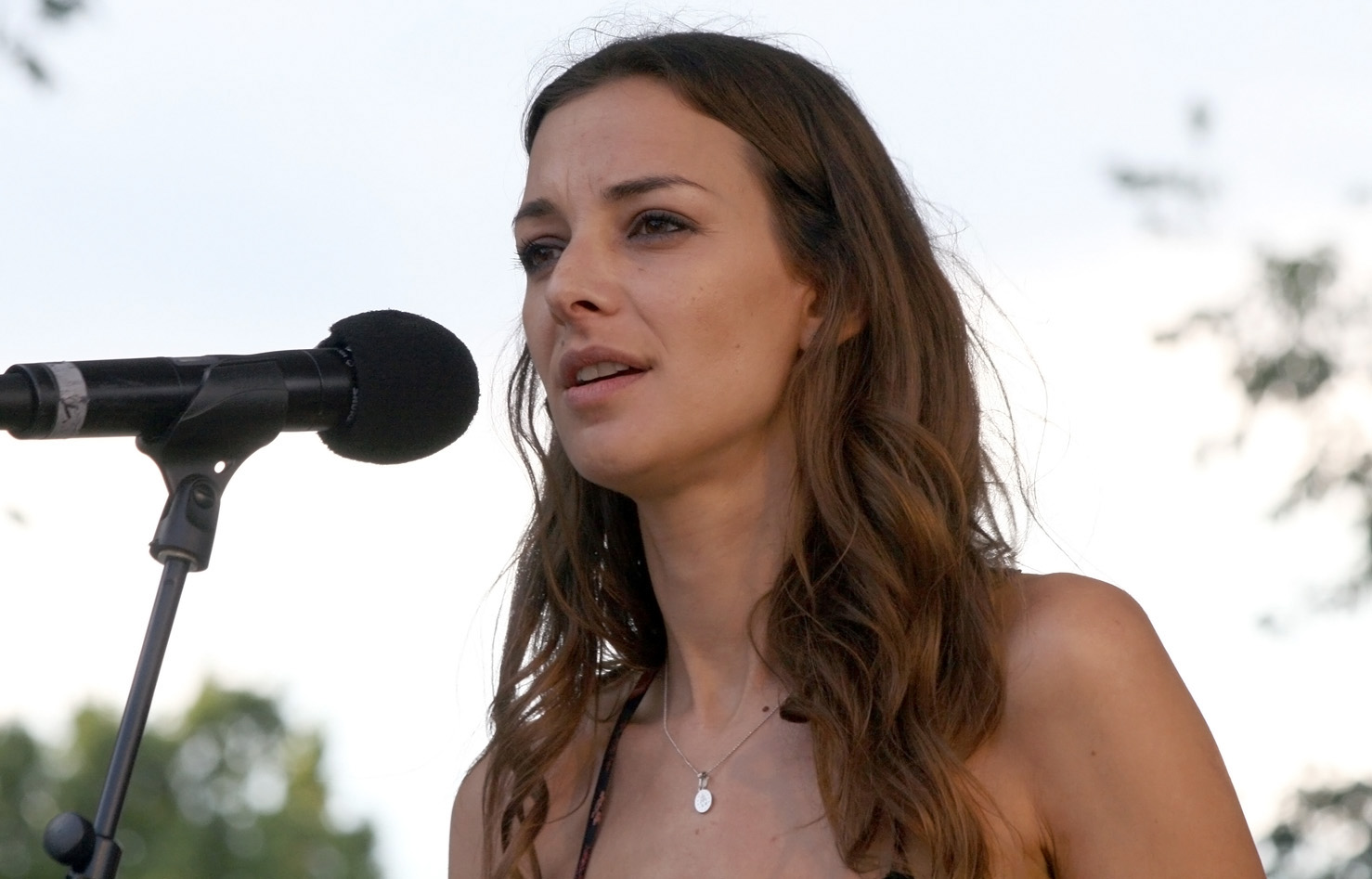 Singer Katika at the festival Wir sind Wien – Festival der Bezirke (Meidlinger Platzl in Vienna